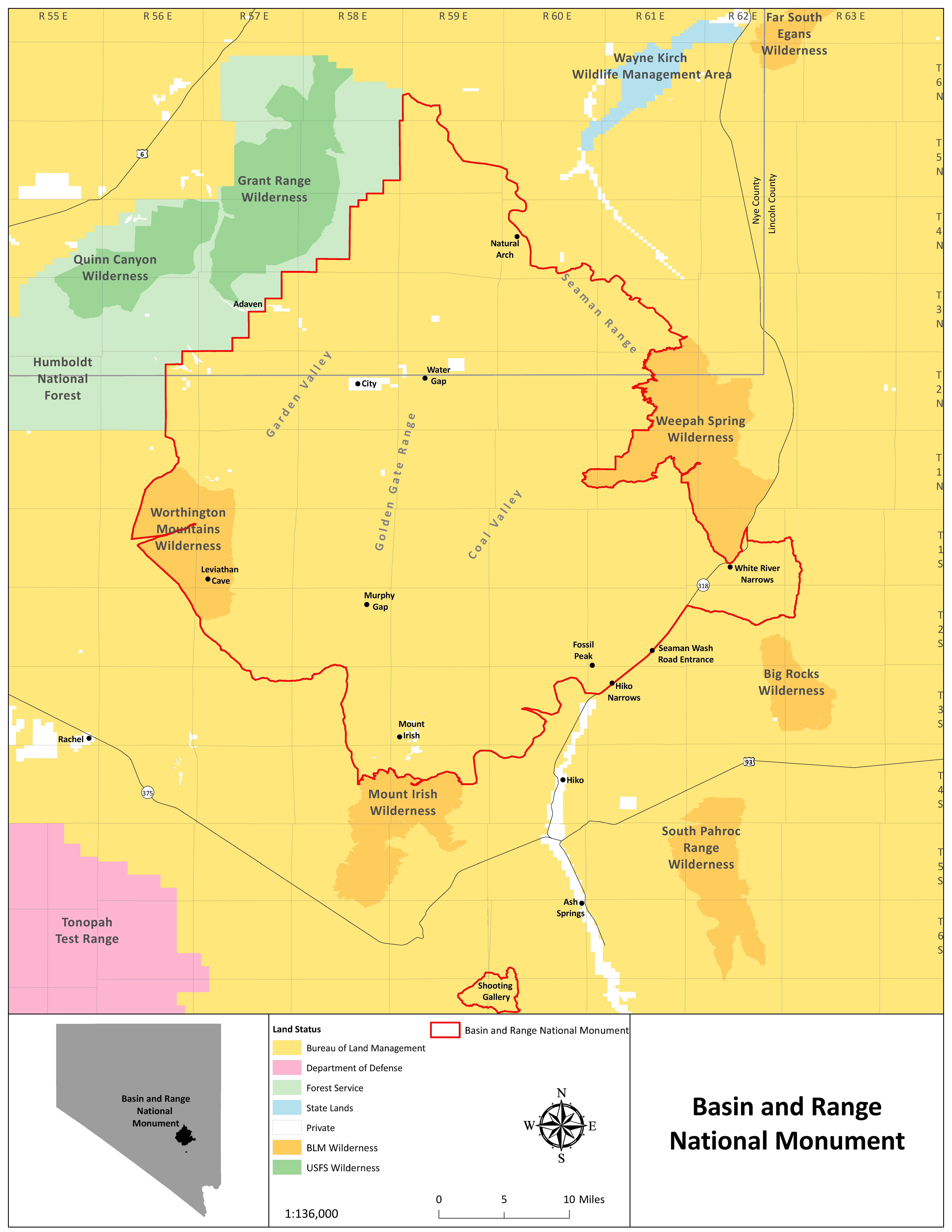 A map of Basin and Range National Monument, Nevada, USA